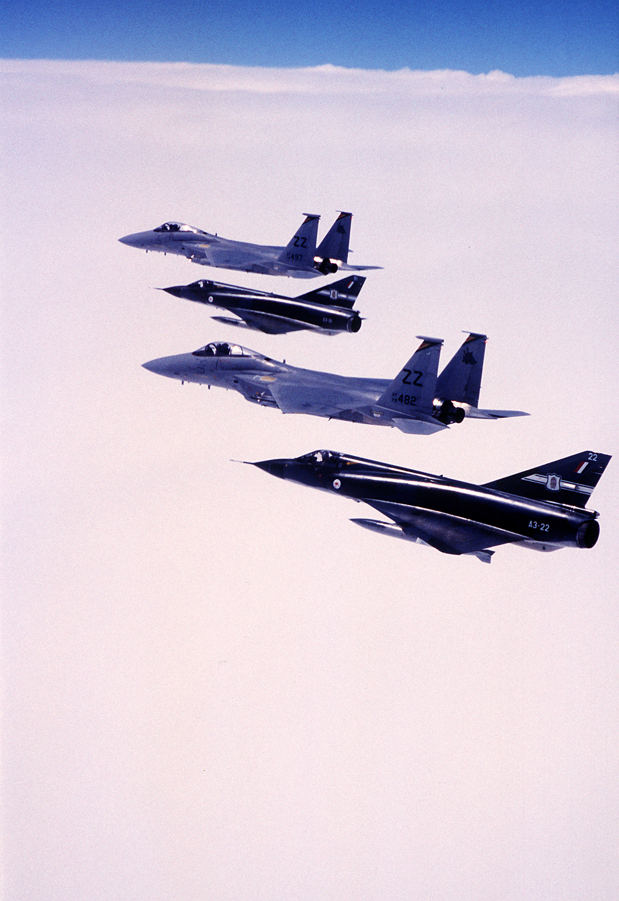 Two F-15A Eagle aircraft of the 44th Tactical Fighter Squadron and two Royal Australian Air Force Mirage III aircraft fly in formation during Exercise Coral Sea '85.